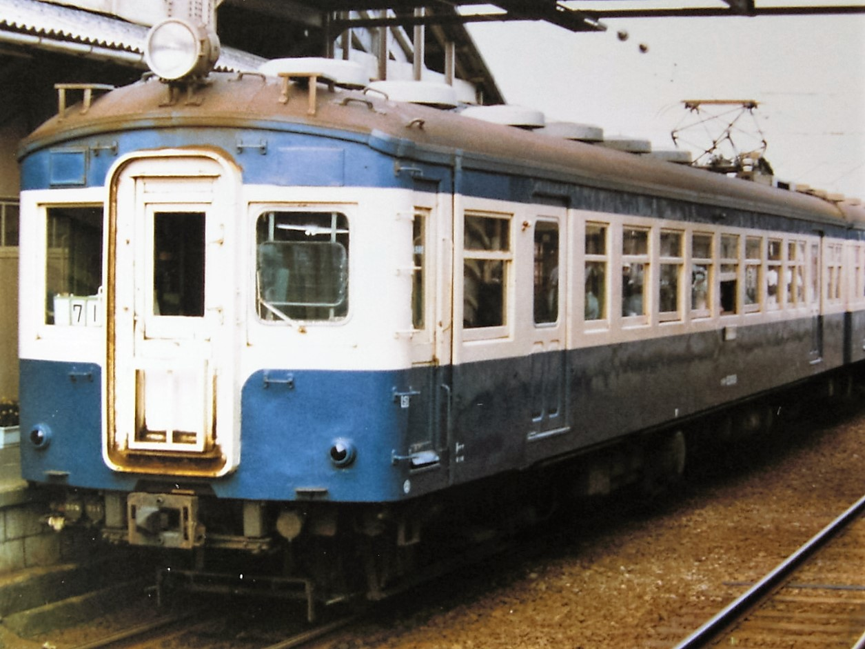 JNR EMU car KuMoHa 53008